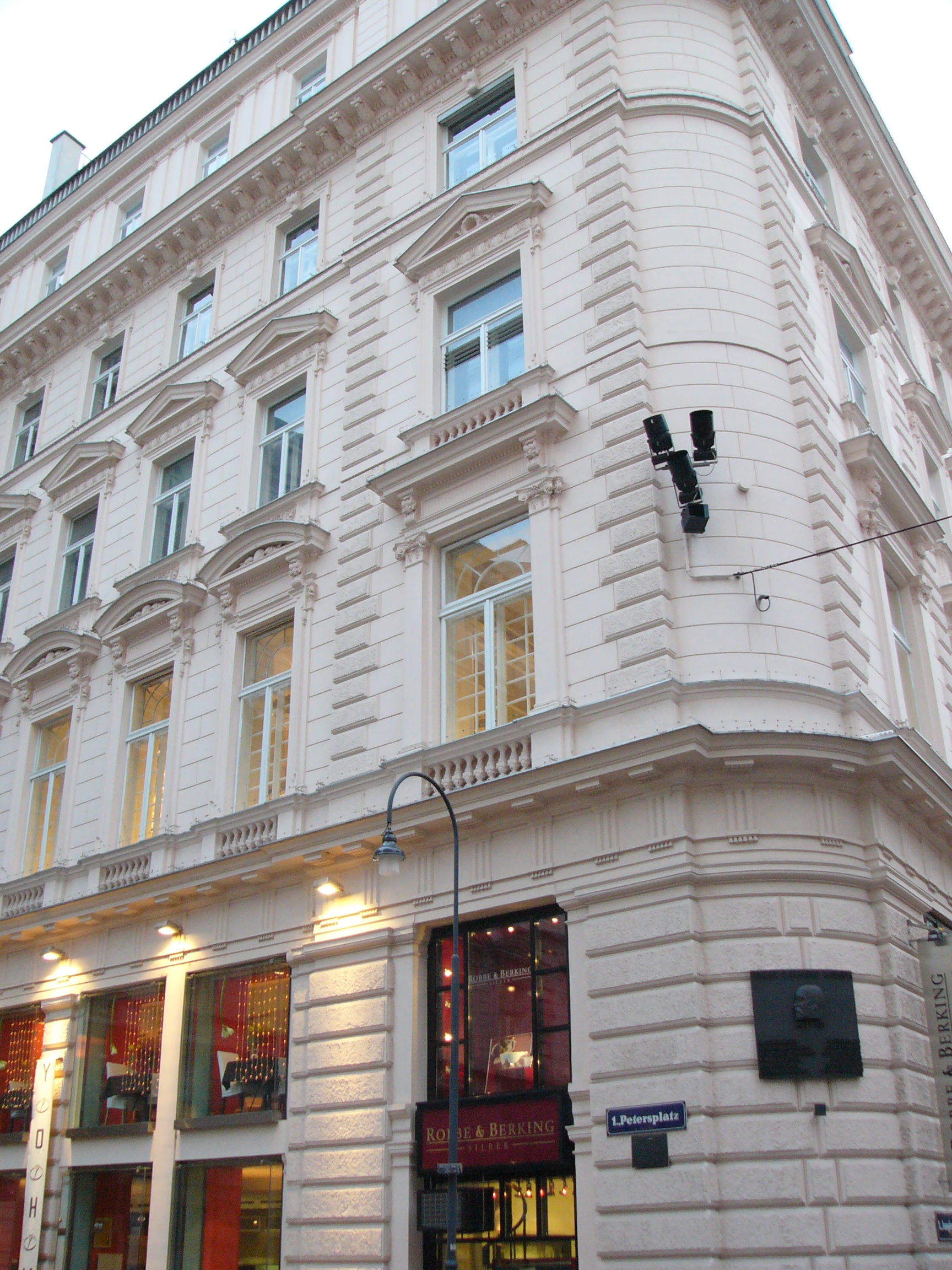 House with memorial plaque devoted to Tomáš Garrigue Masaryk in 1 Petersplaz in Wien (Austria).